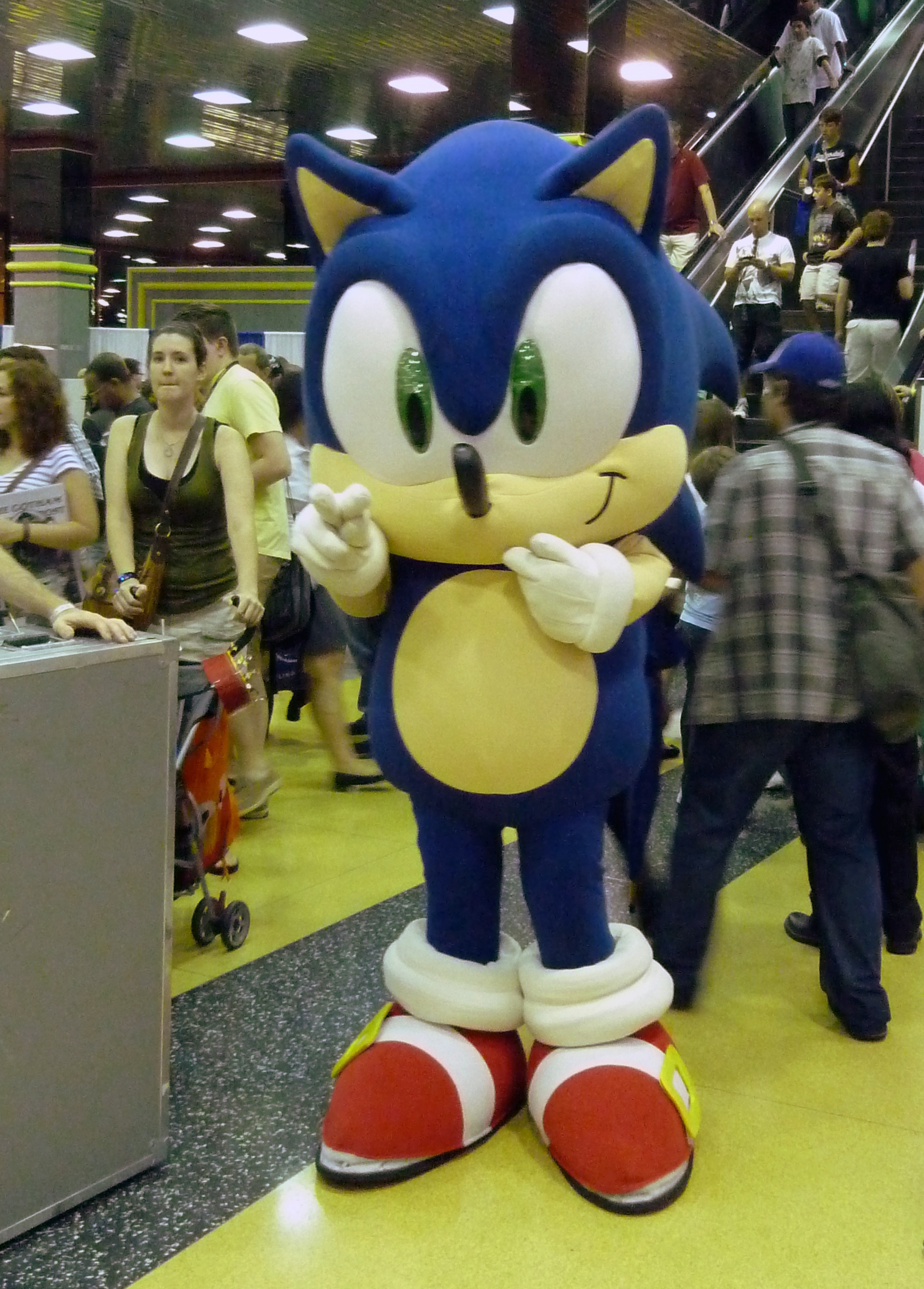 Sonic The Hedgehog Cosplay at Wizard World Chicago 2011.